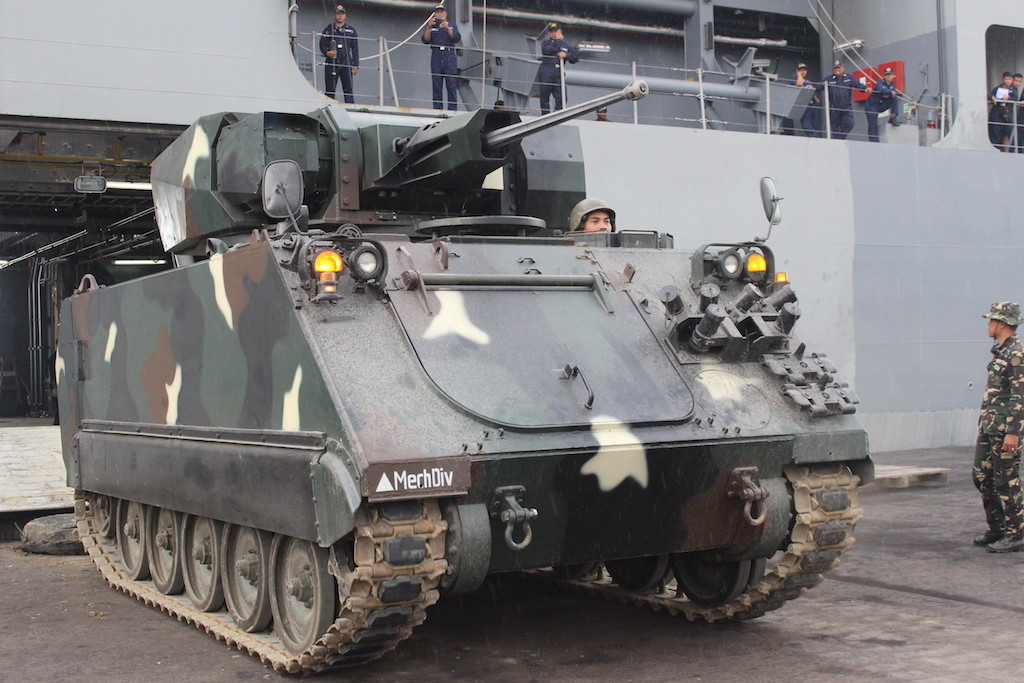 Philippine Navy offloads on May 31 in Iligan City port military vehicles and other supplies for distribution to the different AFP units in Mindanao to cater to the transport and logistical requirements for the ongoing military operations against the terrorists. Dispatched BRP Tarlac (LD-601), first strategic sealift vessel of the navy, sailed from Subic Bay, Zambales last May 29. (ZRD/AD/PIA10)